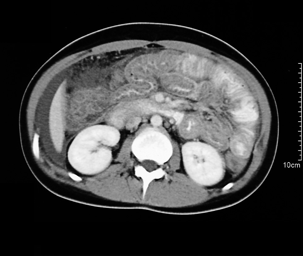 Contrast-enhanced spiral CT revealing ascites and concentric thickening of colon and ileum. Image from: [1]